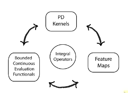 This is a diagram illustrating how the different views of Reproducing Kernel Hilbert spaces are related.